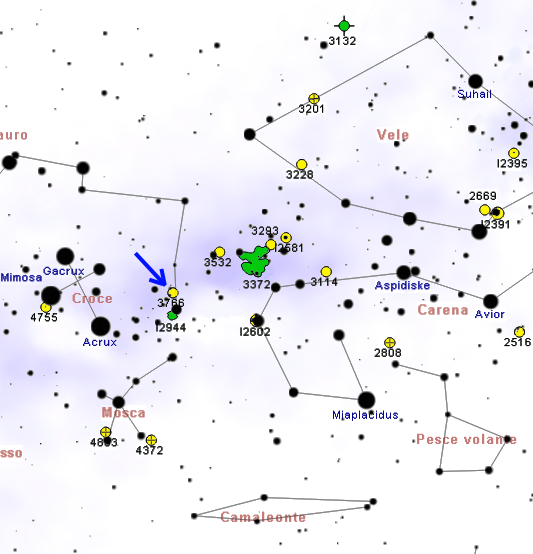 NGC 3766